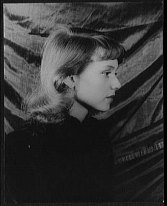 Title: Portrait of Dolly Haas Abstract/medium: 1 photographic print : gelatin silver.